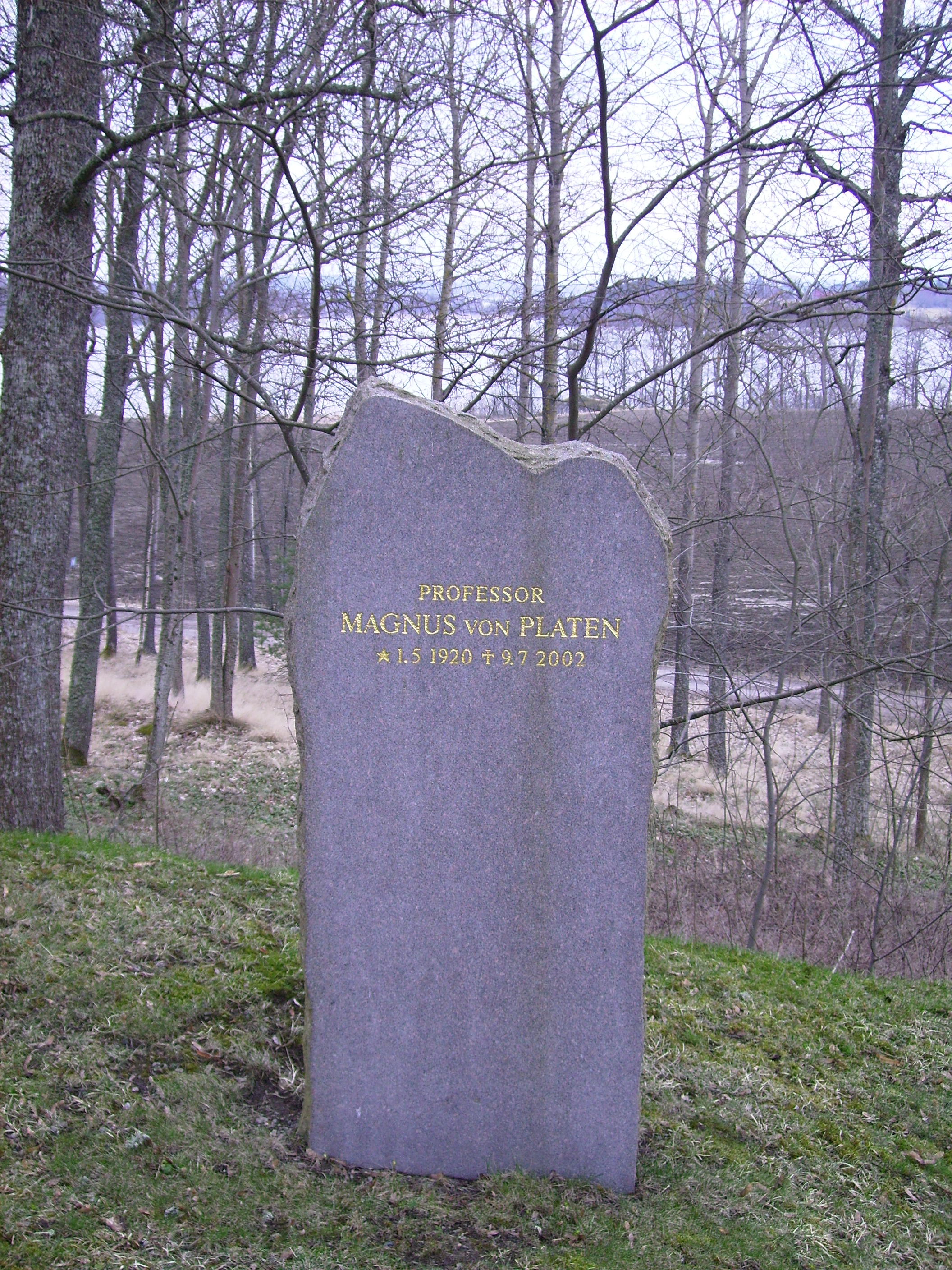 Magnus von Platens grave at Björnlunda kyrka